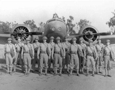 Members of the 102nd Observation Squadron, New York National Guard, stand in front of the unit's only C-40 (?) cargo plane while stationed at Ontario, California (USA), in 1941. This plane was used to move unit supplies and ground support personnel from base to base when the squadron changed station. The squadron's 12 mission aircraft were Douglas O-47 reconnaissance planes. Note: The plane is described as a C-47, which was much bigger.